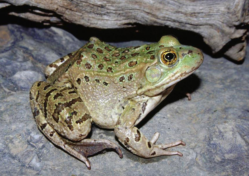 Chiricahua leopard frog a threatened species from Coconino National Forest, Arizona